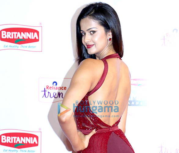 Actress Shubra Aiyappa at the 62nd Filmfare Awards South.